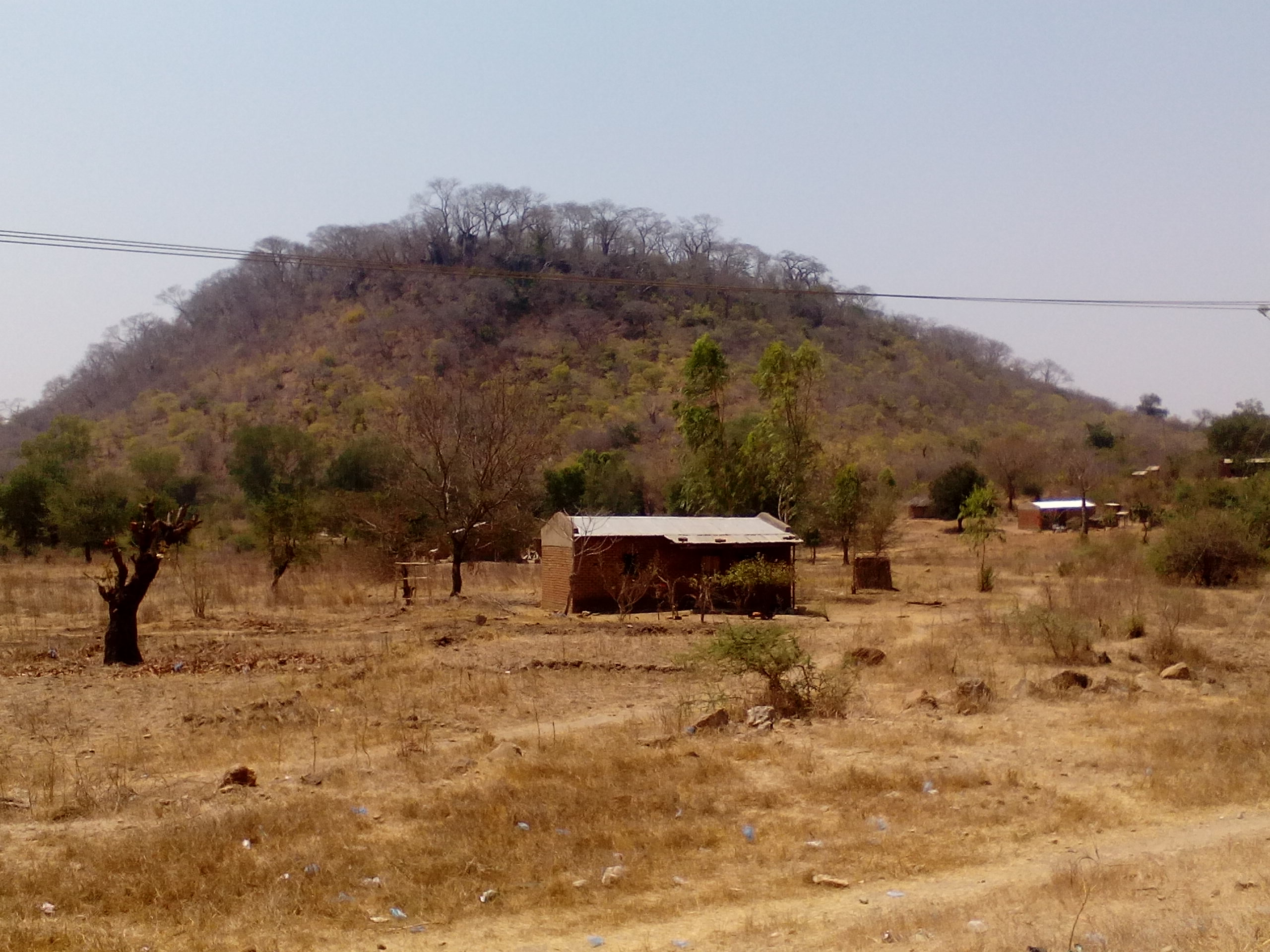 Mbande Hill, Karonga. Sacred place for the Ngonde people of northern Malawi